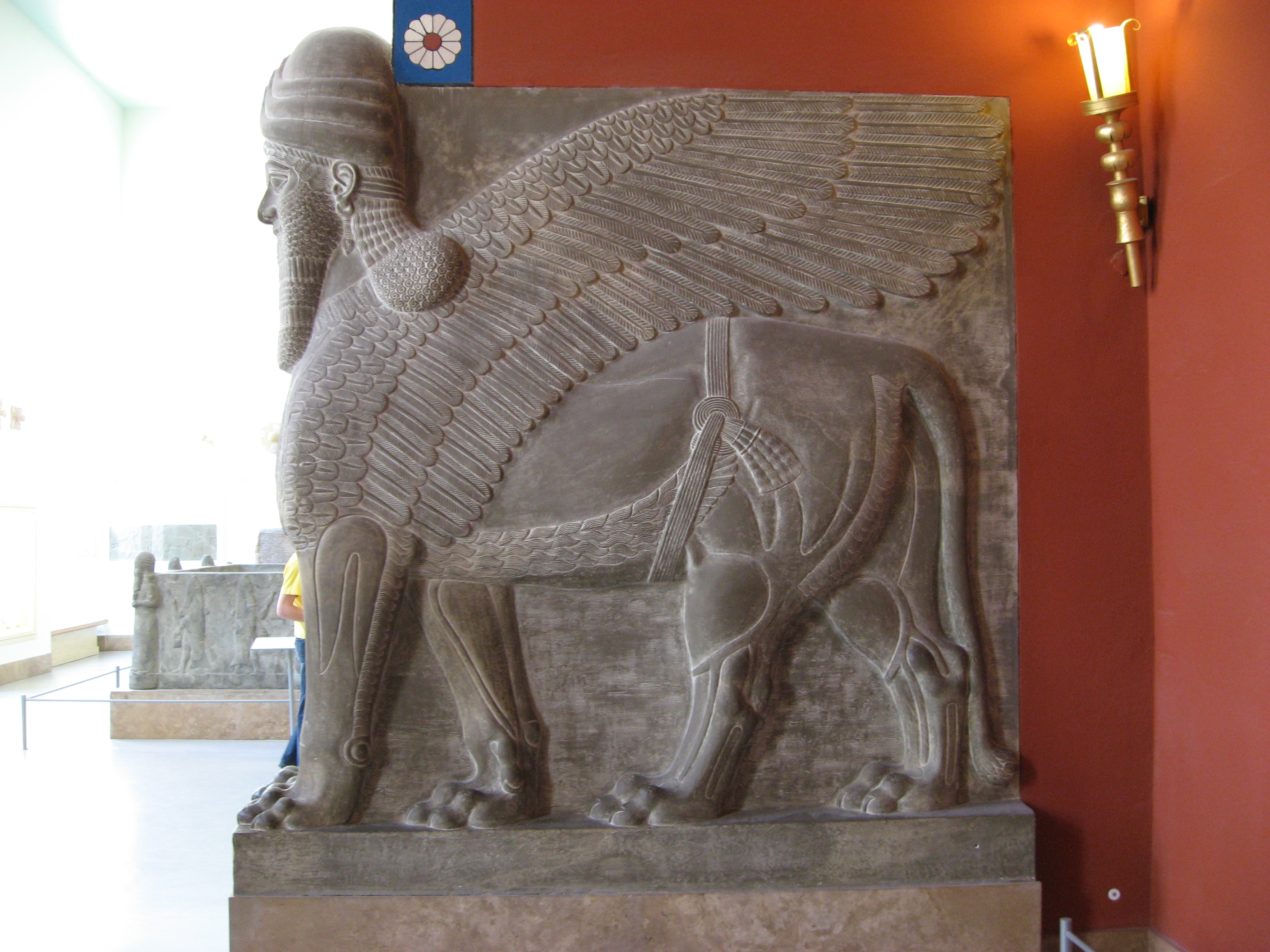 so-called Shedu-Lamassu from the palace of Tukulti-Ninurta I. Originals are at the British Museum